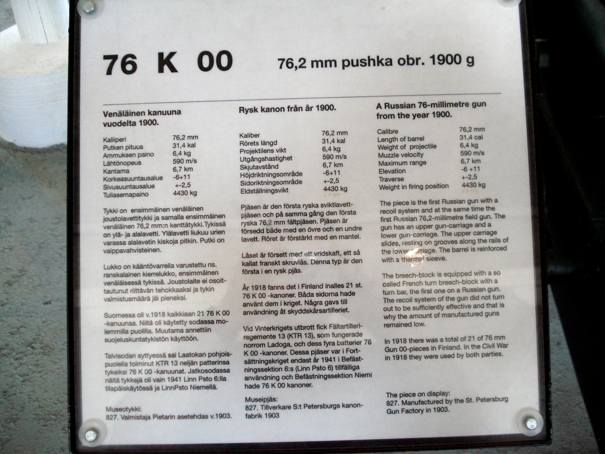 Russian Model 1900 76,2 mm field gun. This particular piece was manufactured in St. Petersburg in 1903. Photo taken on June 18, 2006. Source: Photo by me, User:Balcer.